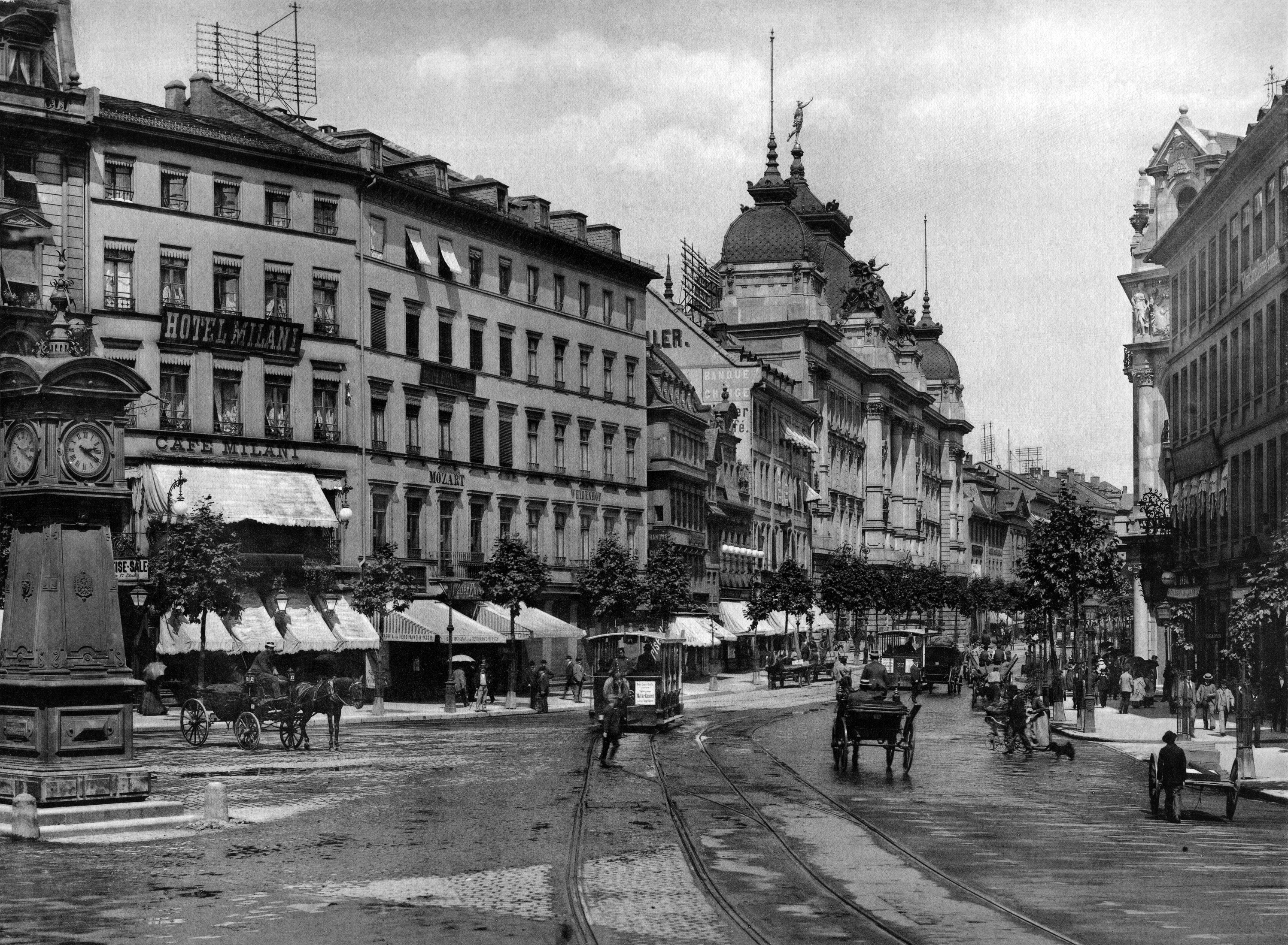 Frankfurt on the Main: Zeil as seen to the east